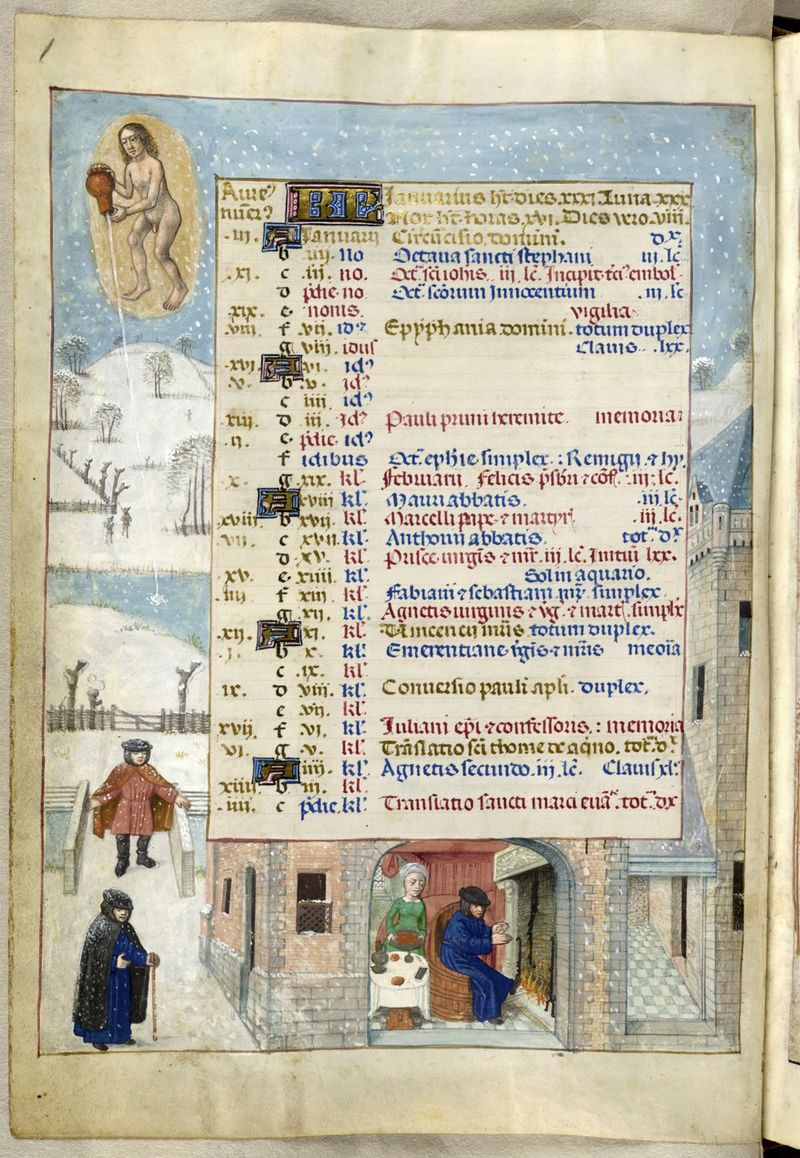 British Library blog This page for January shows the zodiac sign for Aquarius in the upper left, depicted as a nude man with a pitcher of water (which, rather charmingly, is being poured into the river in the landscape below). He is surrounded by a winter scene, with bundled people walking through the snowy fields towards a welcoming house. In the lower margin is a scene that combines two of the most common (and most pleasant) 'labours' for January - feasting, and warming oneself by the fire.